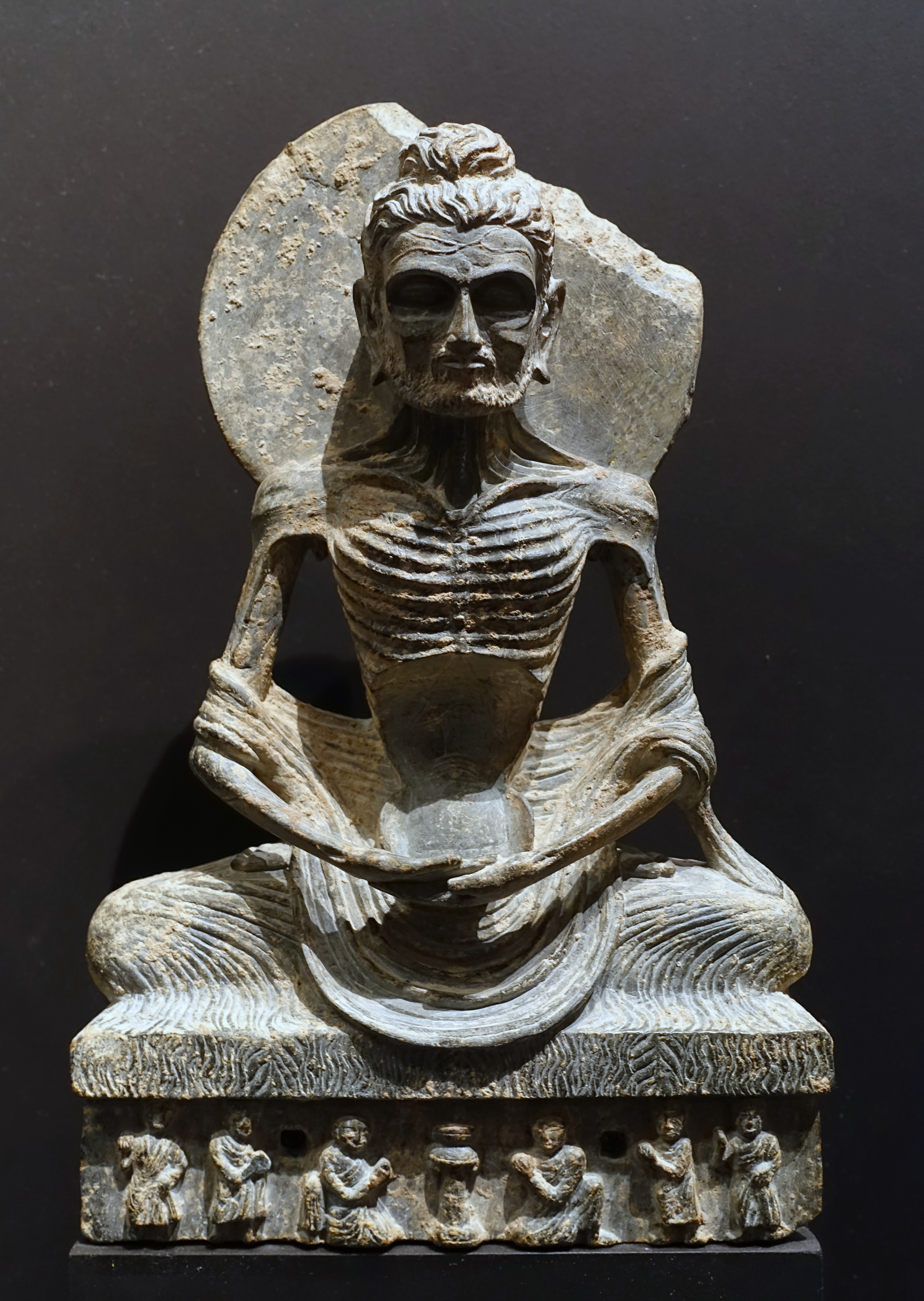 Exhibit in the Linden-Museum - Stuttgart, Germany.